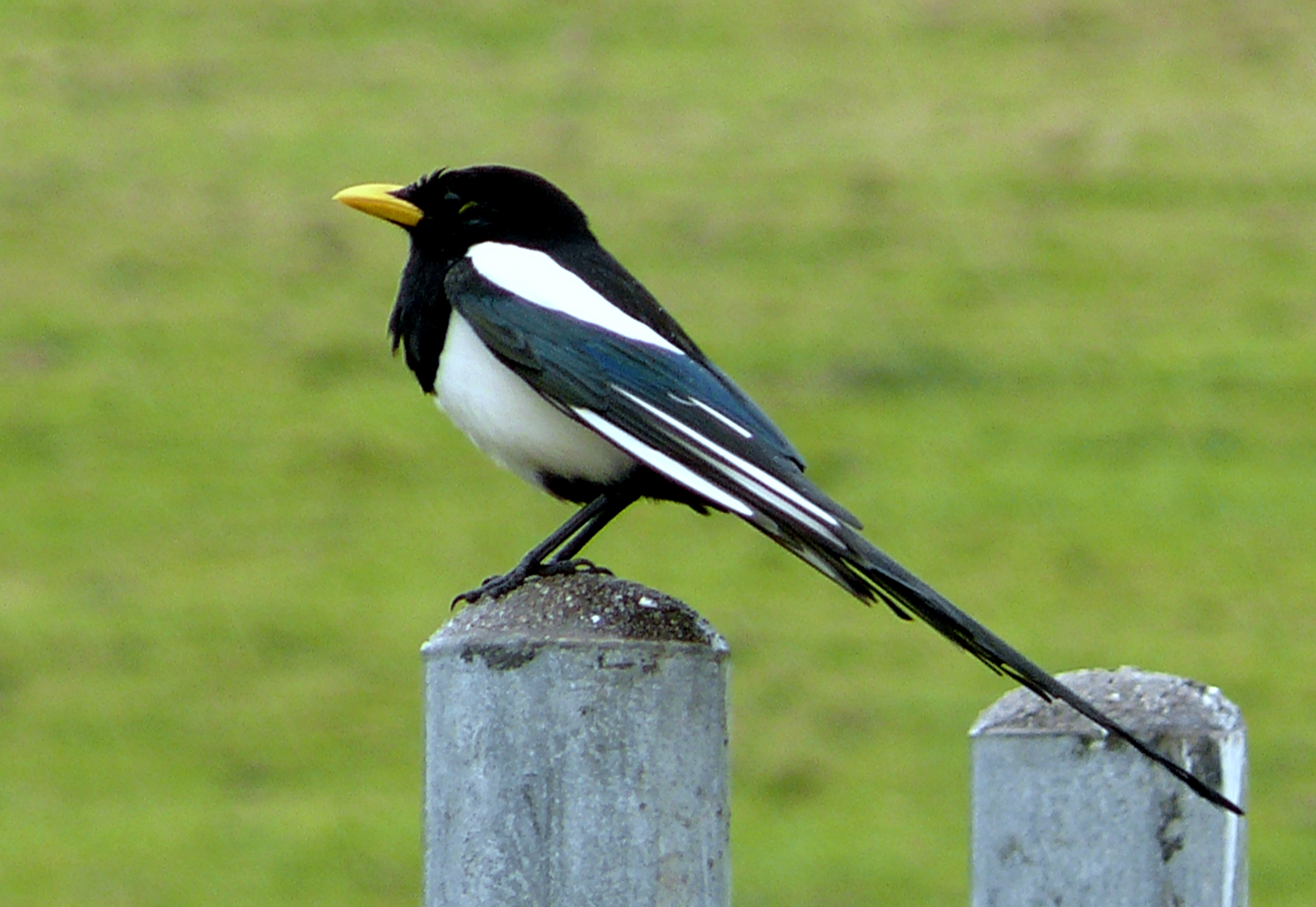 I looked for (and found) them in the rain in Santa Margarita. Seven in this group on Calf Canyon and a group of four on Pozo Road. These magpies (with the yellow bill) are found only in central California...other Magpies have black bills. Pica nuttalli.